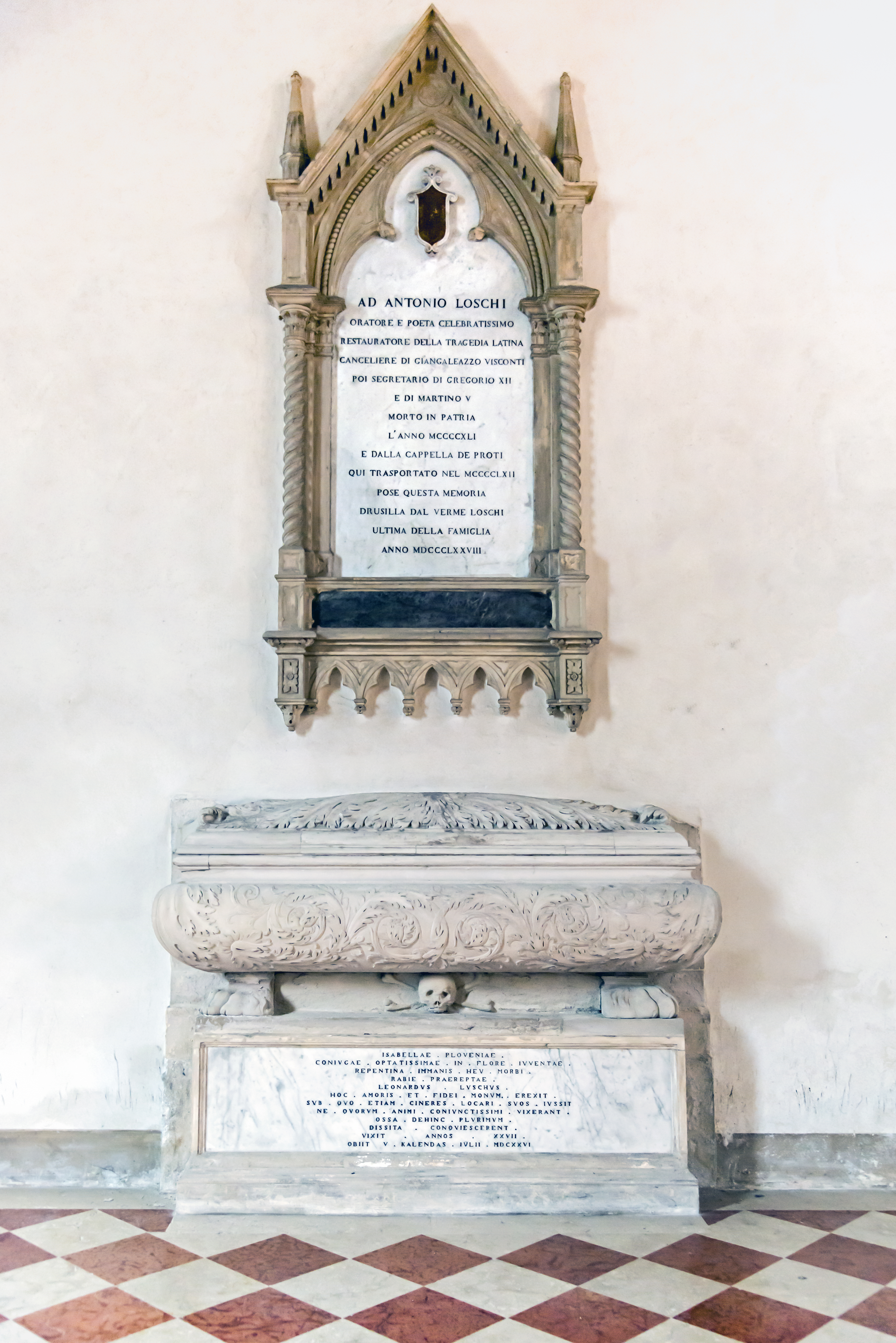 The interior of the Vicenza Cathedral - Third chapel on the left (right wall)- Monument to Antonio Loschi